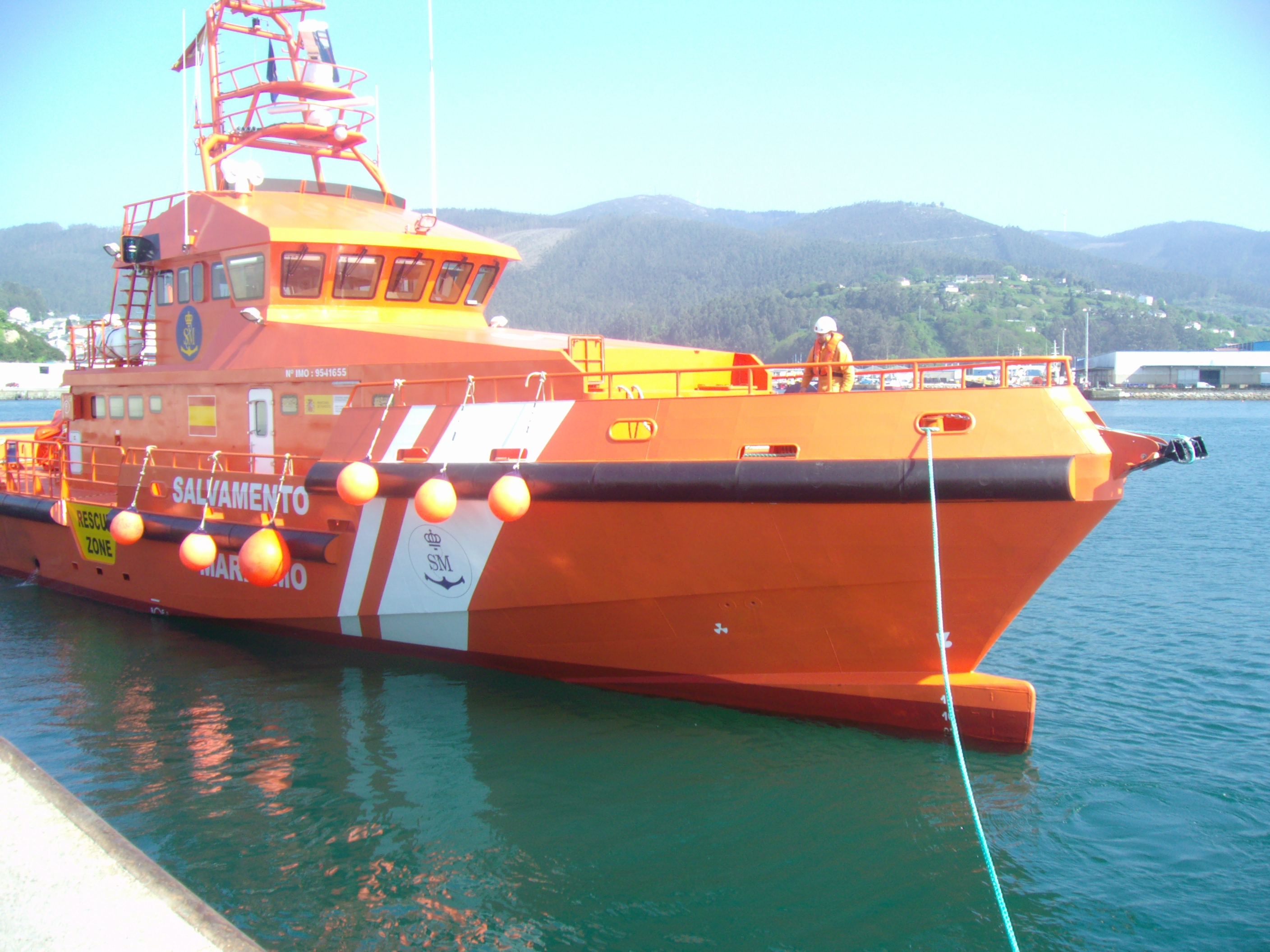 Docking process of Guardamar Concepción Arenal (G-10) of Salvamento Marítimo at Celeiro Port, in Viveiro, Spain.